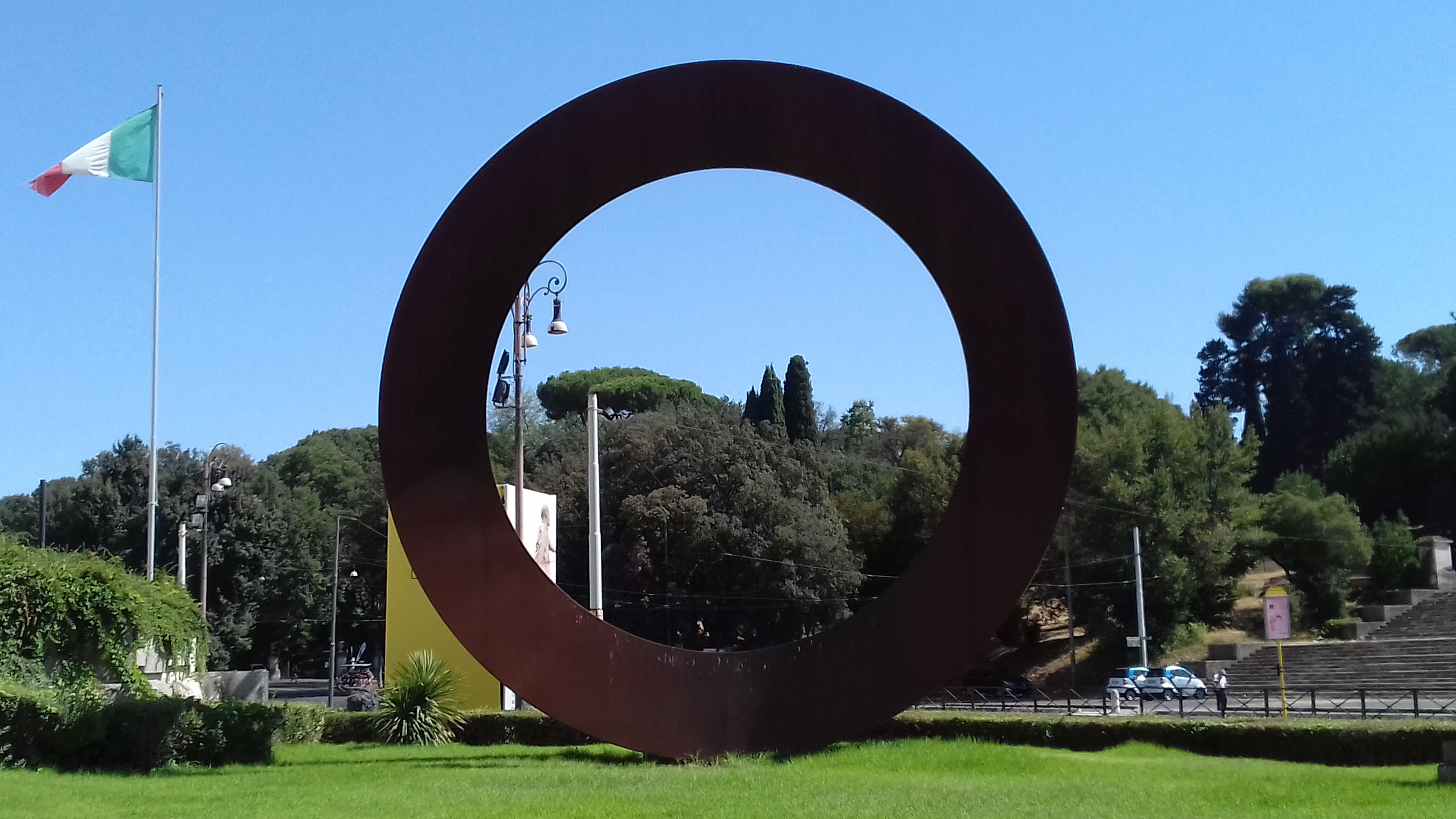 Roma 2010 by Mauro Staccioli in front of the National Gallery of Modern Art in Rome